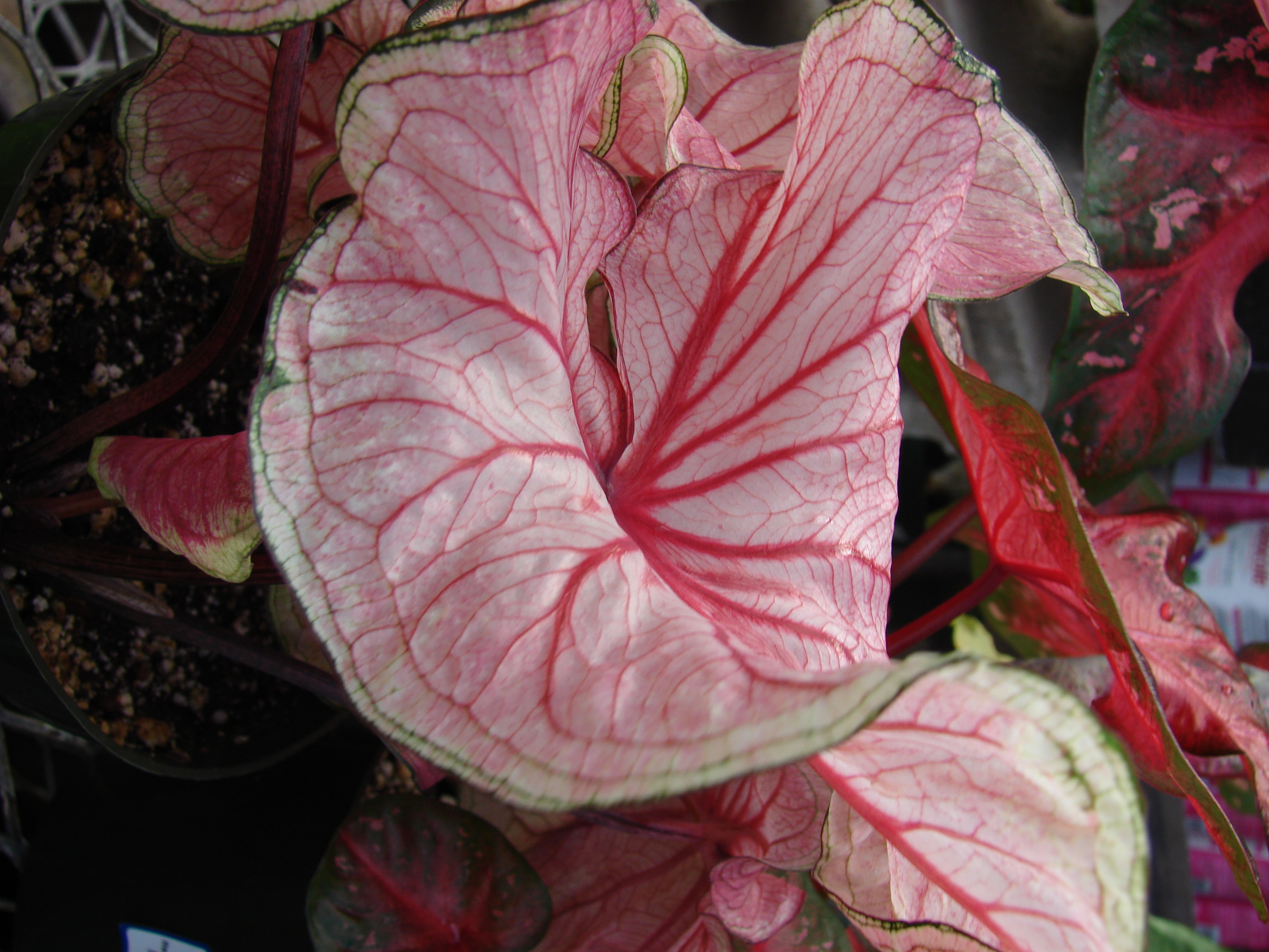 Caladium sp. (leaf). Location: Maui, Lowes Garden Center Kahului